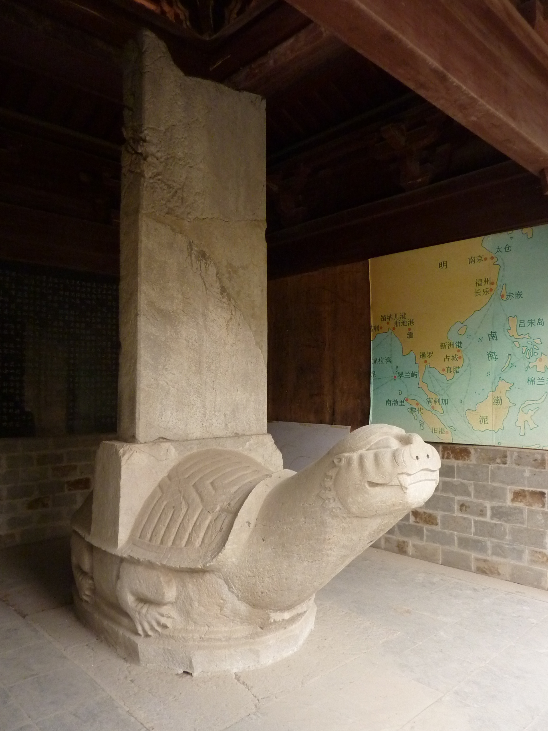 The restored stone tortoise (bixi) with a stele in memory of the Sultan of Brunei - the centerpiece of the Sultan of Brunei Tomb site in Nanjing. It sits in a restored stele pavilion, decorated with information boards about Brunei and Sino-Bruneian relations.